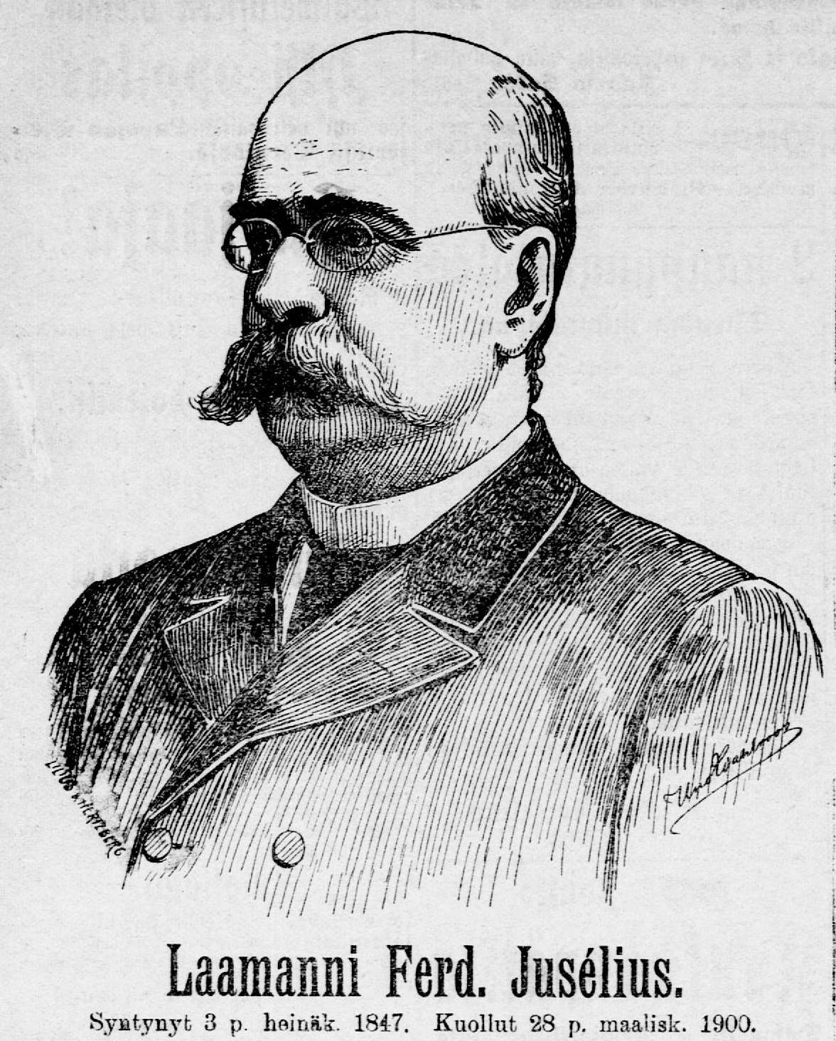 August Ferdinand Juselius, Mayor of Turku from 1881 to 1900.